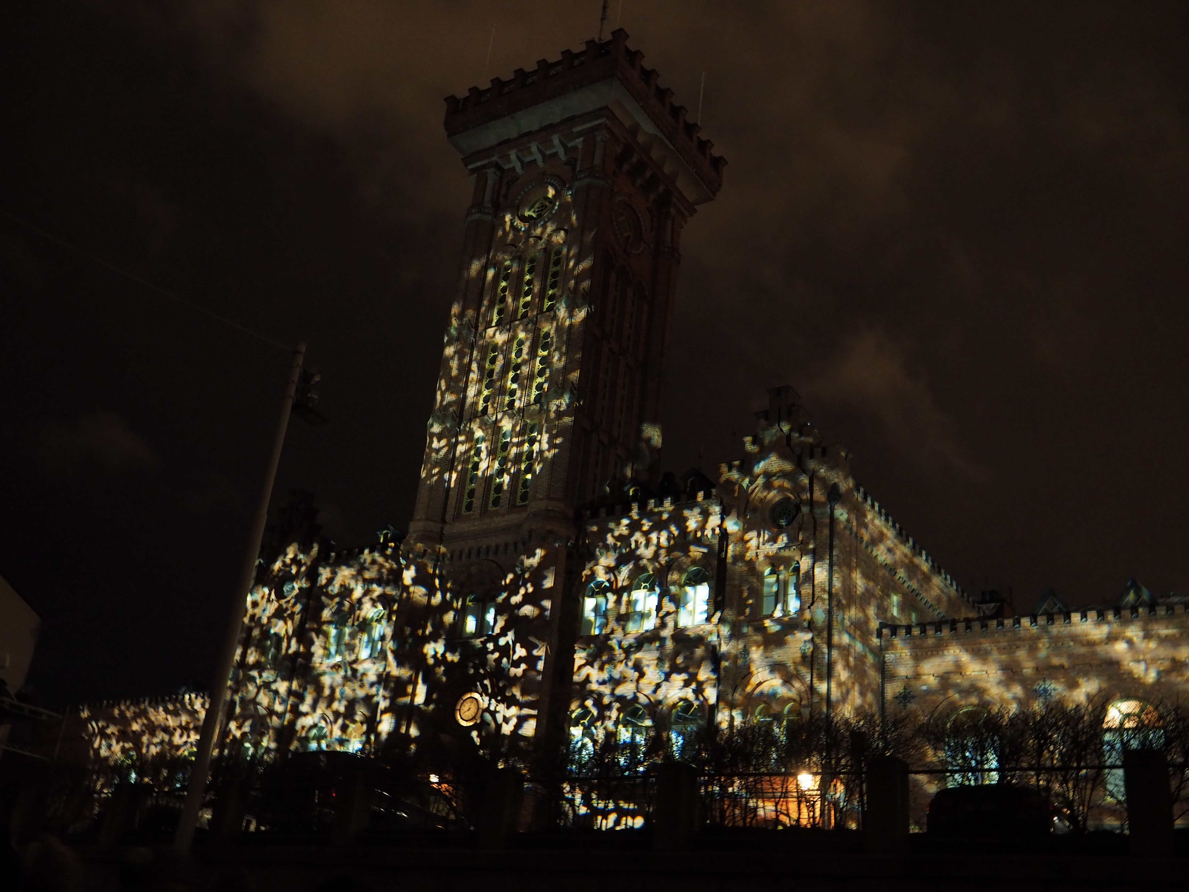 A light artwork at the Lux Helsinki 2018 event in Helsinki, Finland, in early January 2018.